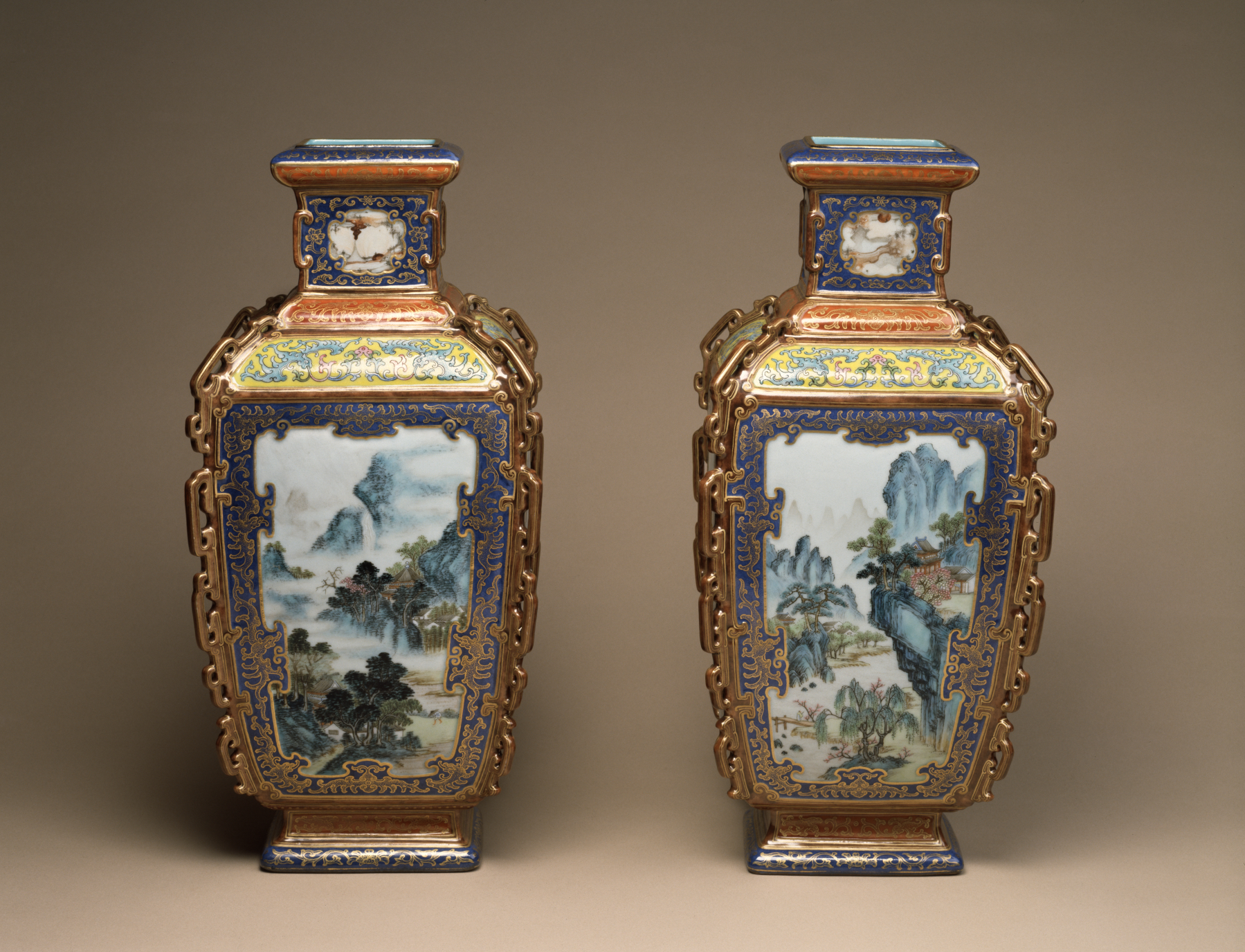 This pair of vases is an example of "famille rose" porcelain.